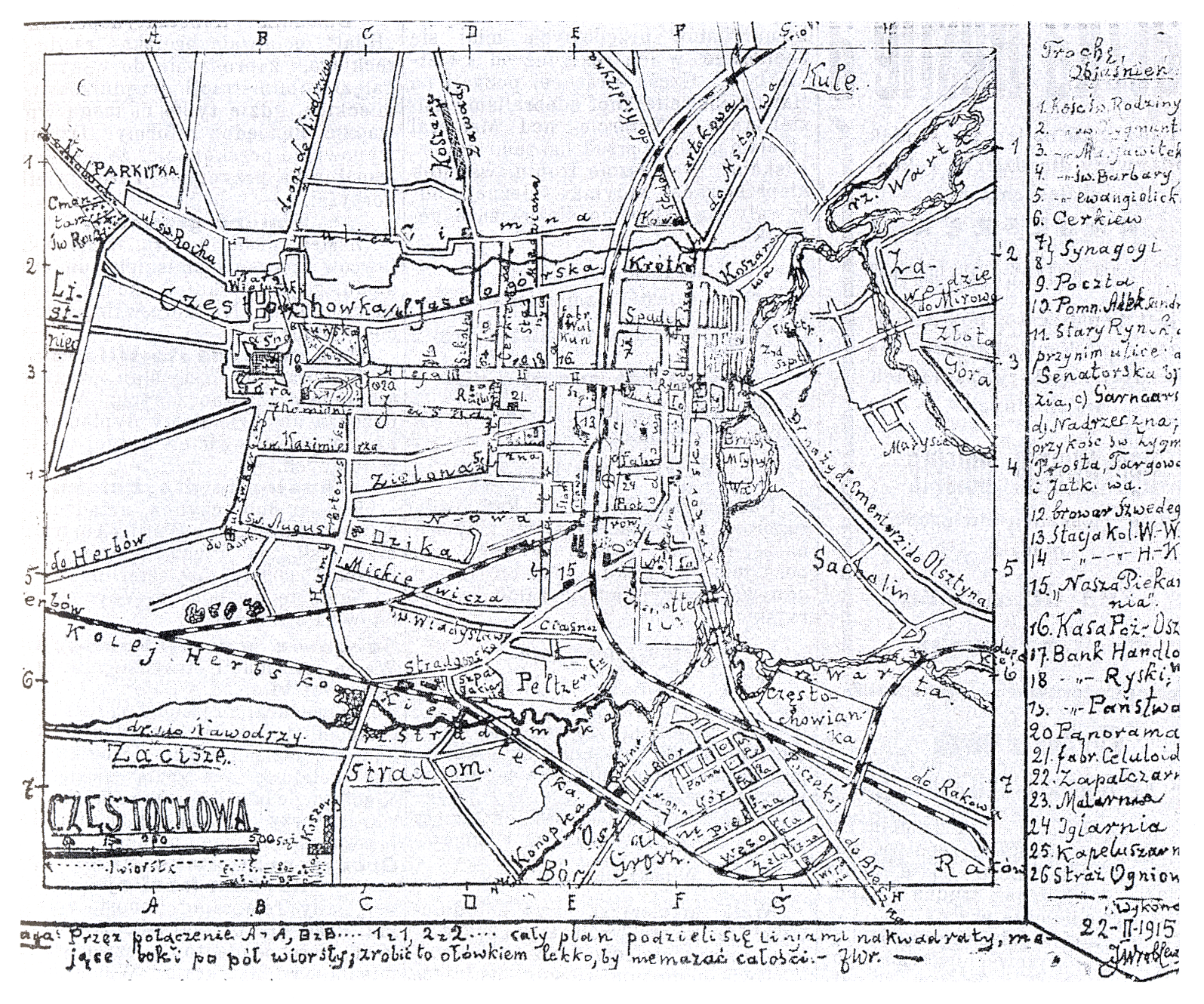 The map of Częstochowa, Poland (1915).